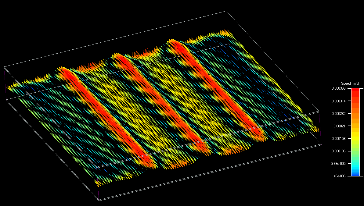 Benard cells - parallel roll structures - inside a flat enclosure containing air. Result of a numerical simulation using the CFD software Flotherm. The enclosure dimensions were set to 100 x 100 x 15 mm3, the temperature difference between the upper and the lower plate was set to 1 °C. The air speed distribution is shown at a cross-section in the middle between the upper and the lower enclosure walls. The maximum speed is approximately 0.3 mm/s.